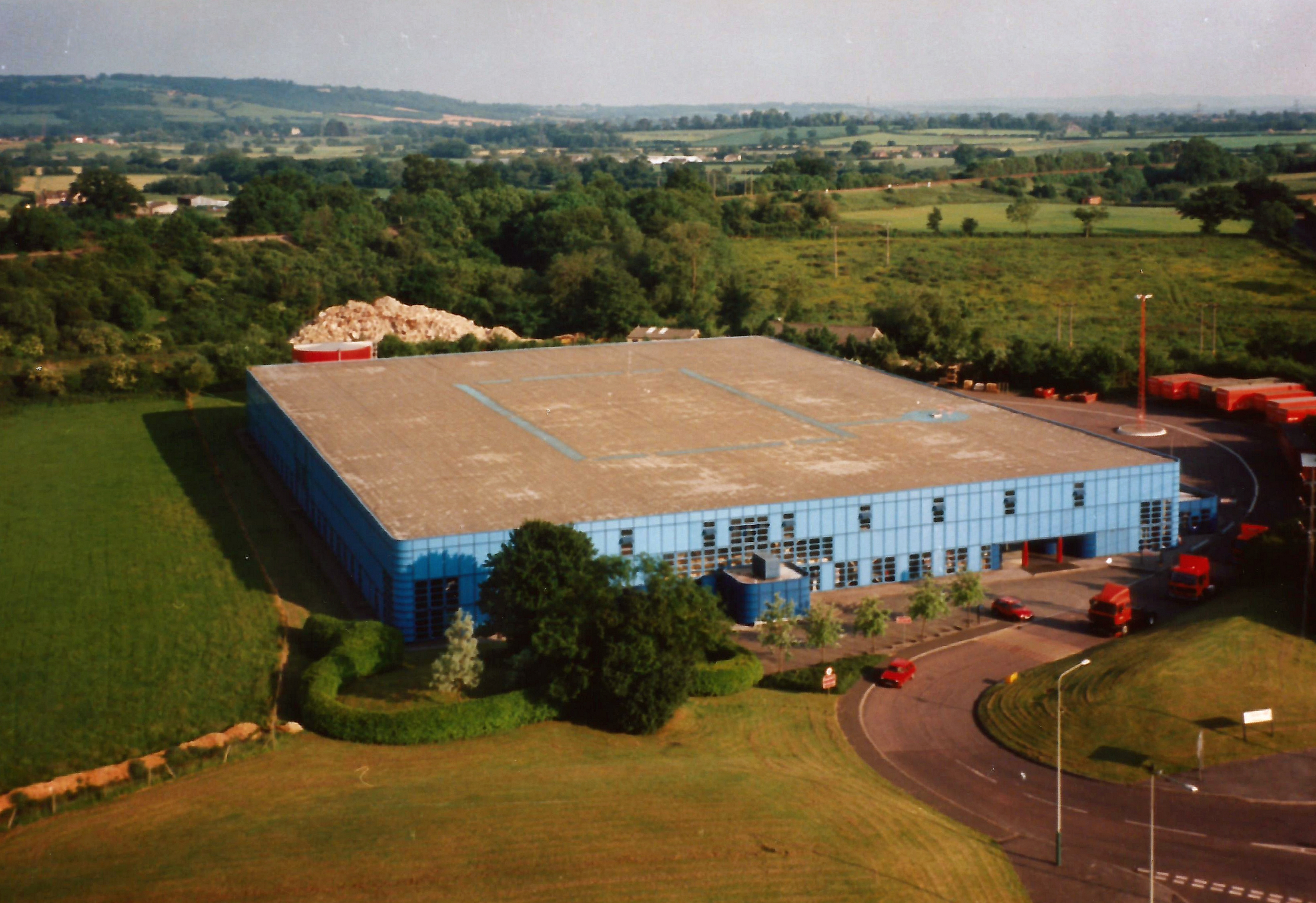 Herman Miller distribution centre in Chippenham, Wiltshire, UK